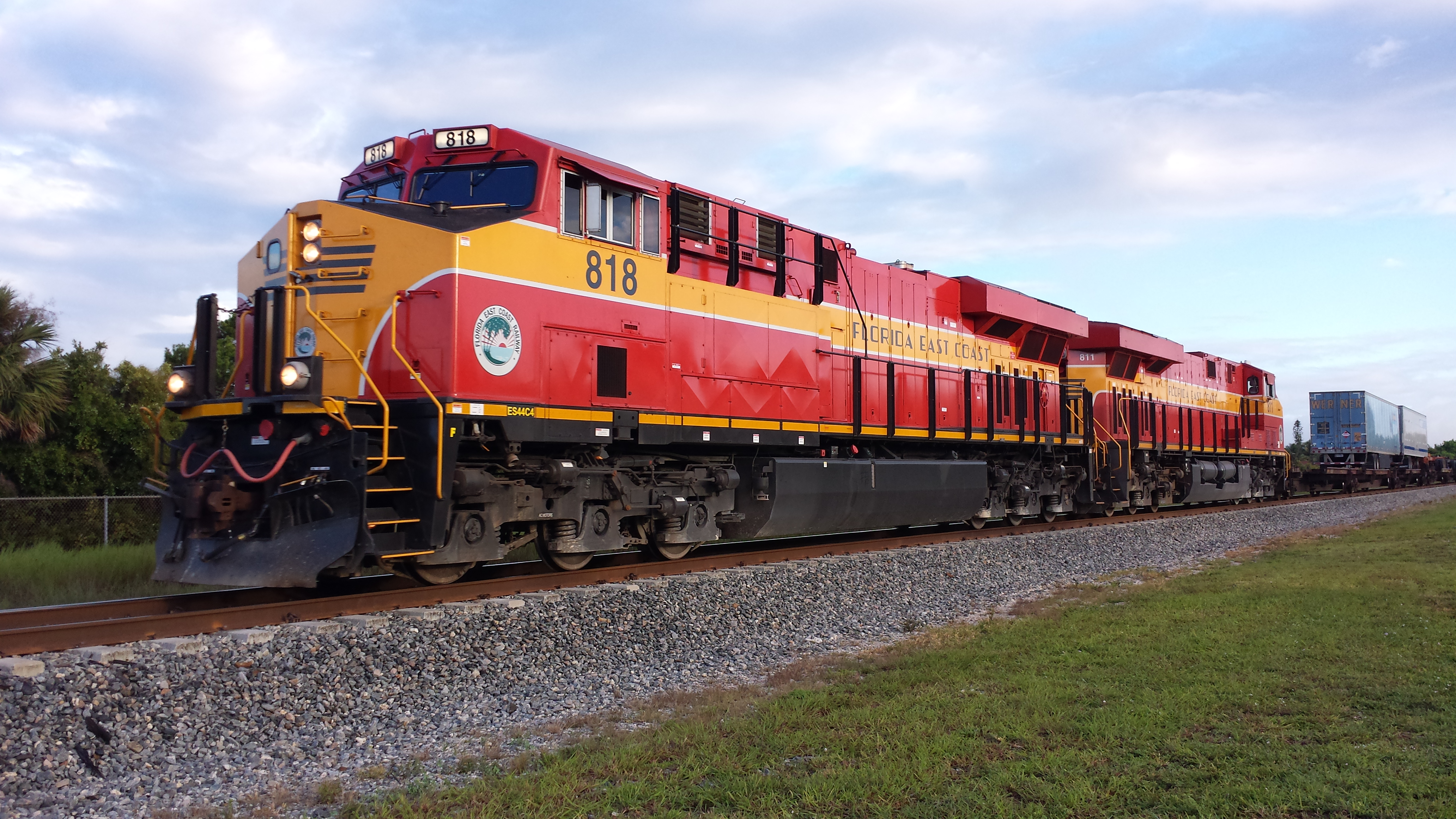 Two ES44C4 locomotives lead a southbound train through Boynton Beach, FL